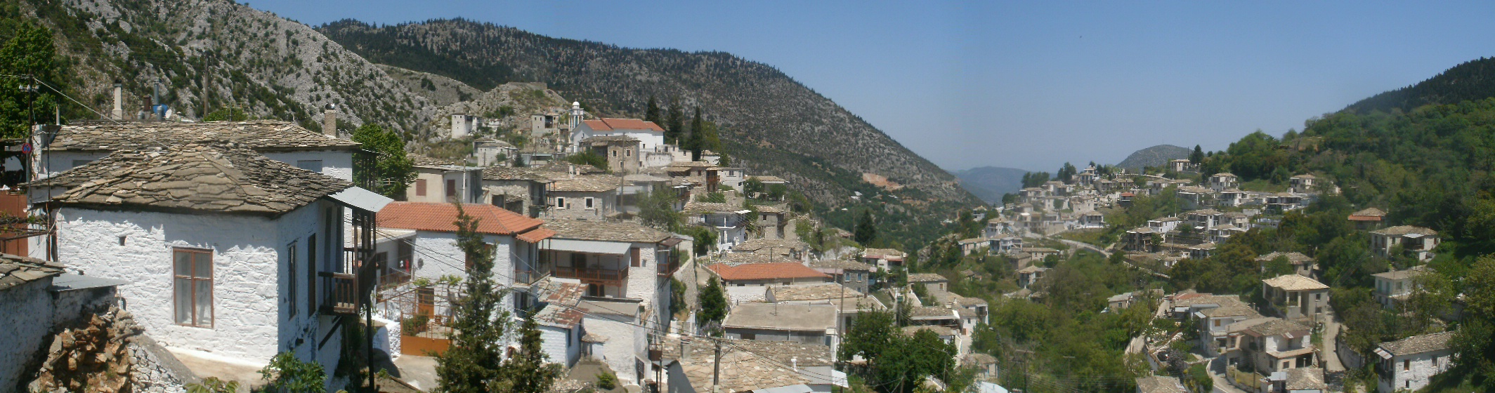 Panoramic view of Kastanitsa